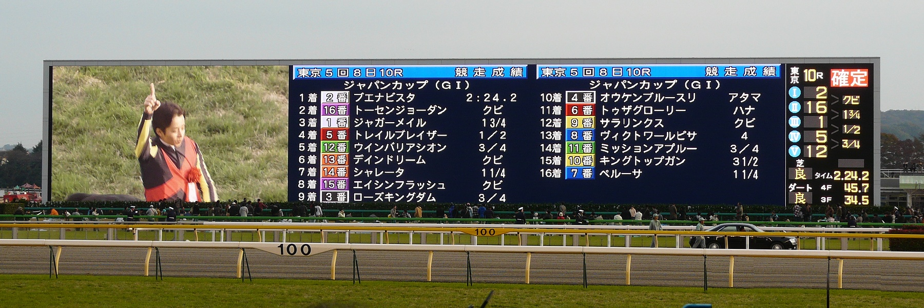 Tokyo-Racecourse-05